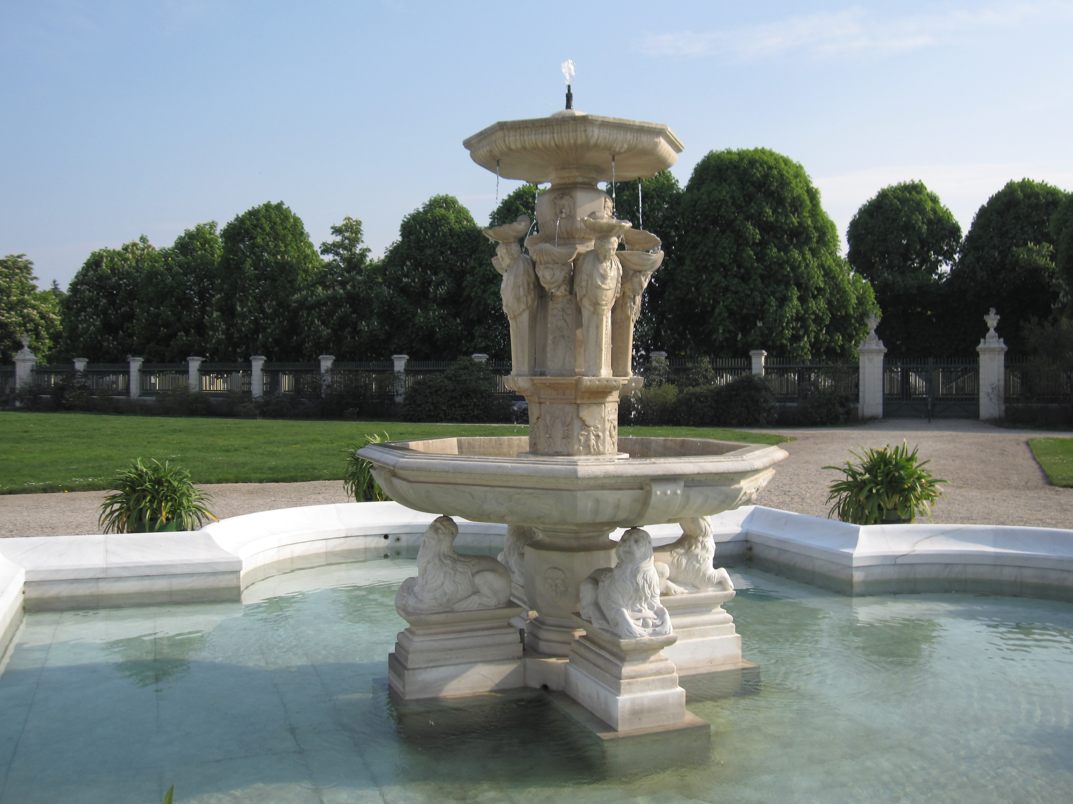 Fountain probably by Alexander Colin, constructed in 16th century. Apparently first set up in Neugebäude Palace and then transferred to the Orangery of Schönbrunn by Empress Maria Theresa in the 18th century.